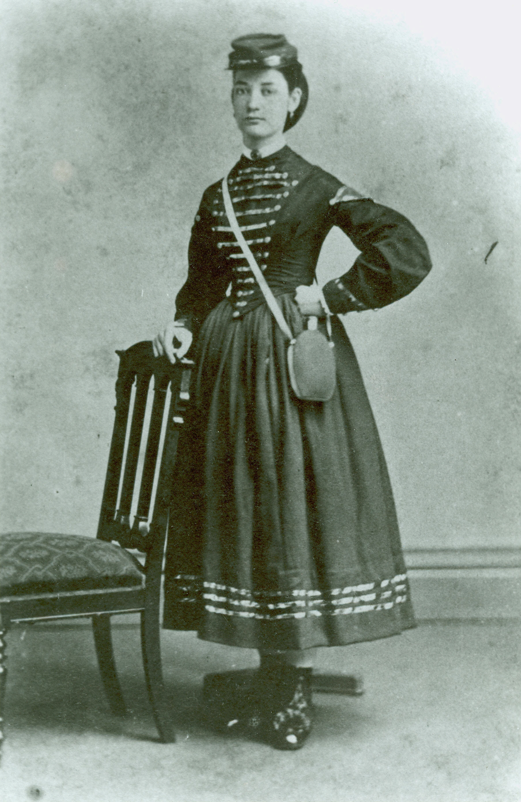 Photo of an unidentified woman of the Civil War period who is wearing a kepi and a canteen. It is possible she is a vivandière.